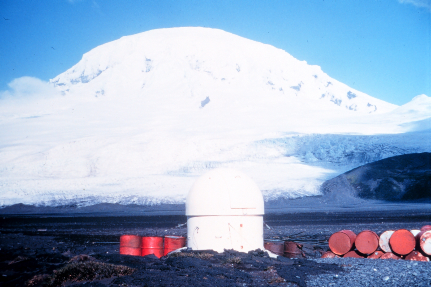 Heard Island